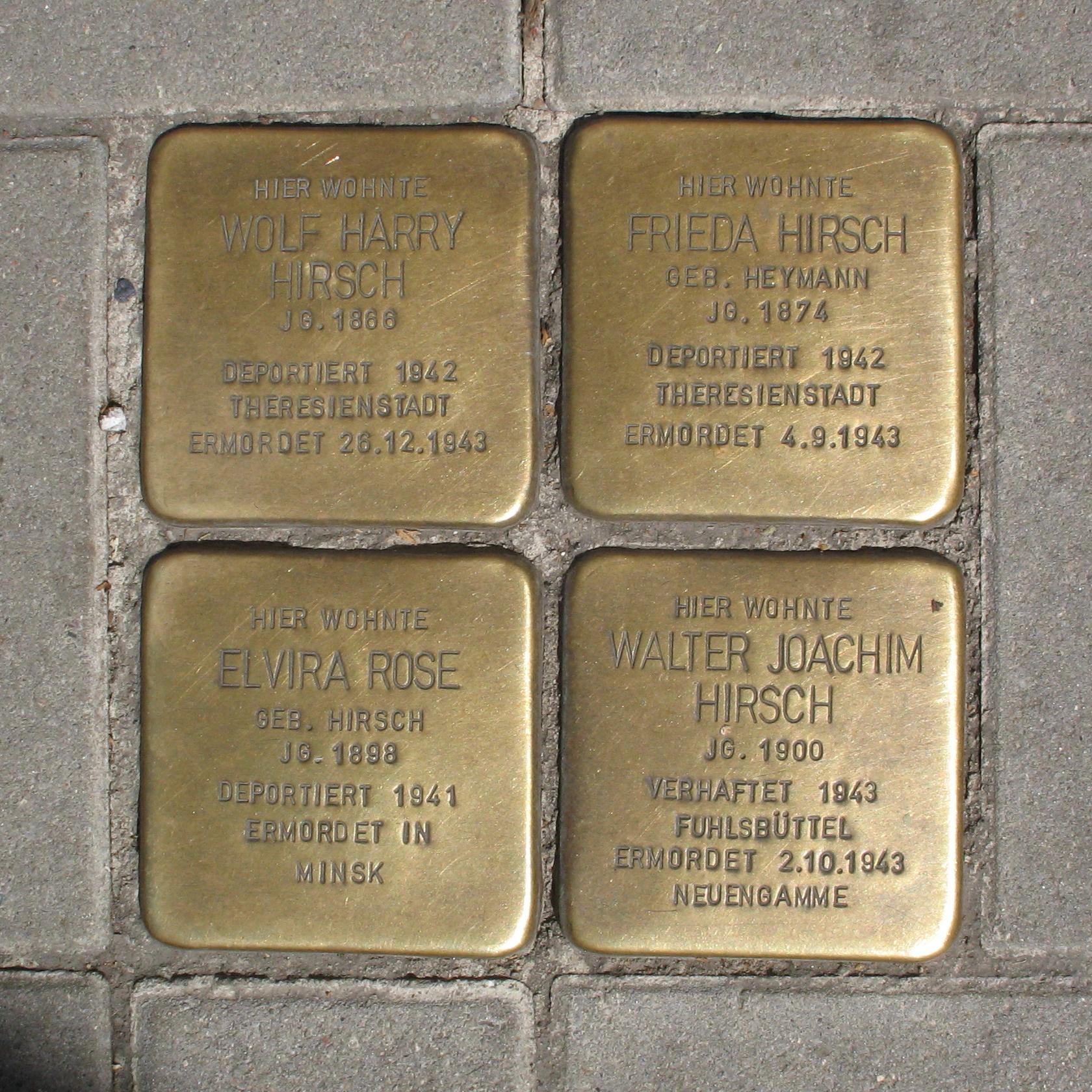 "Stumbling blocks" in Hamburg-St. Pauli, Germany